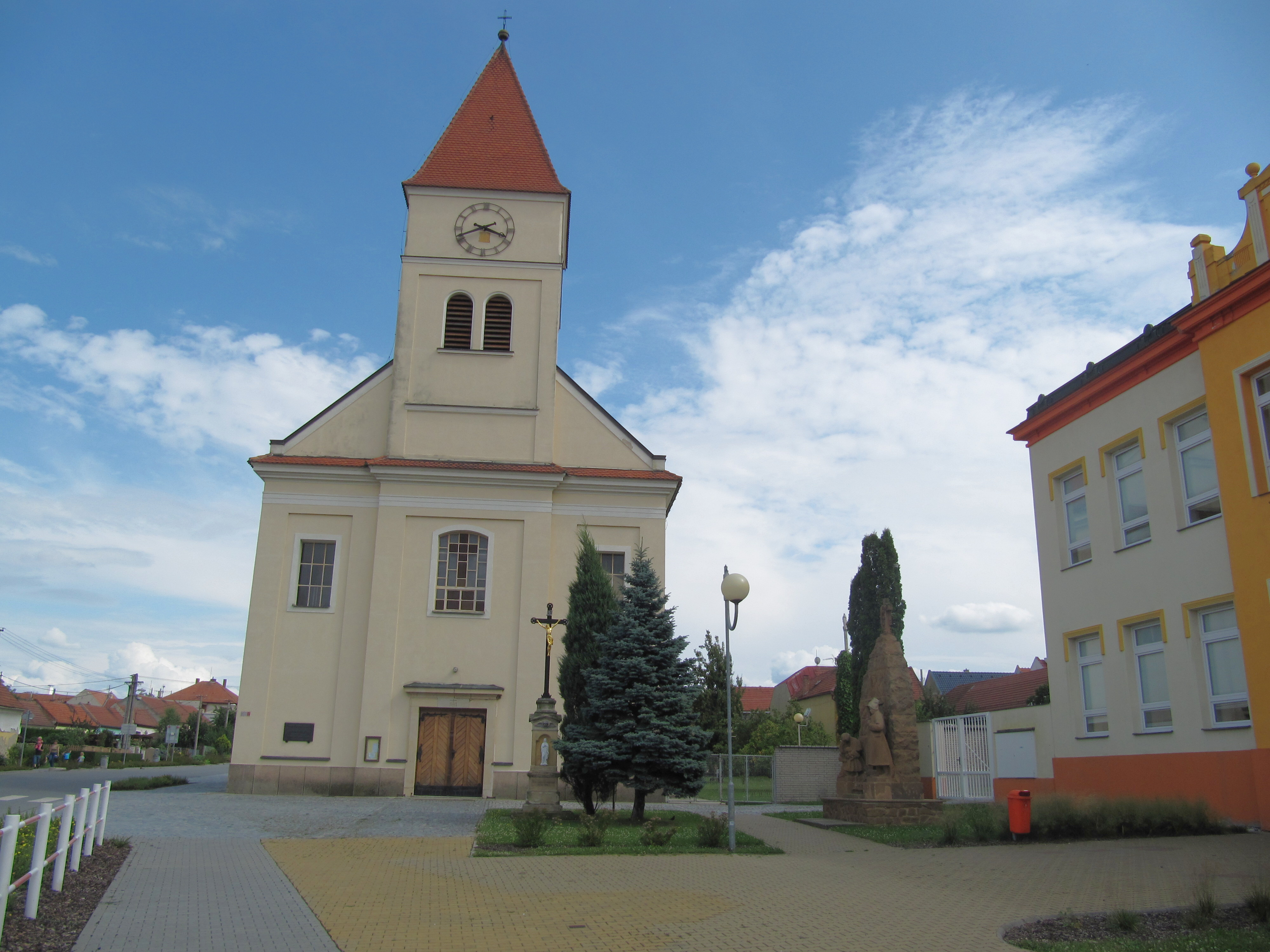 Ostrožská Nová Ves in Uherské Hradiště District, Czech Republic. St. Wenceslas-church from 1770.